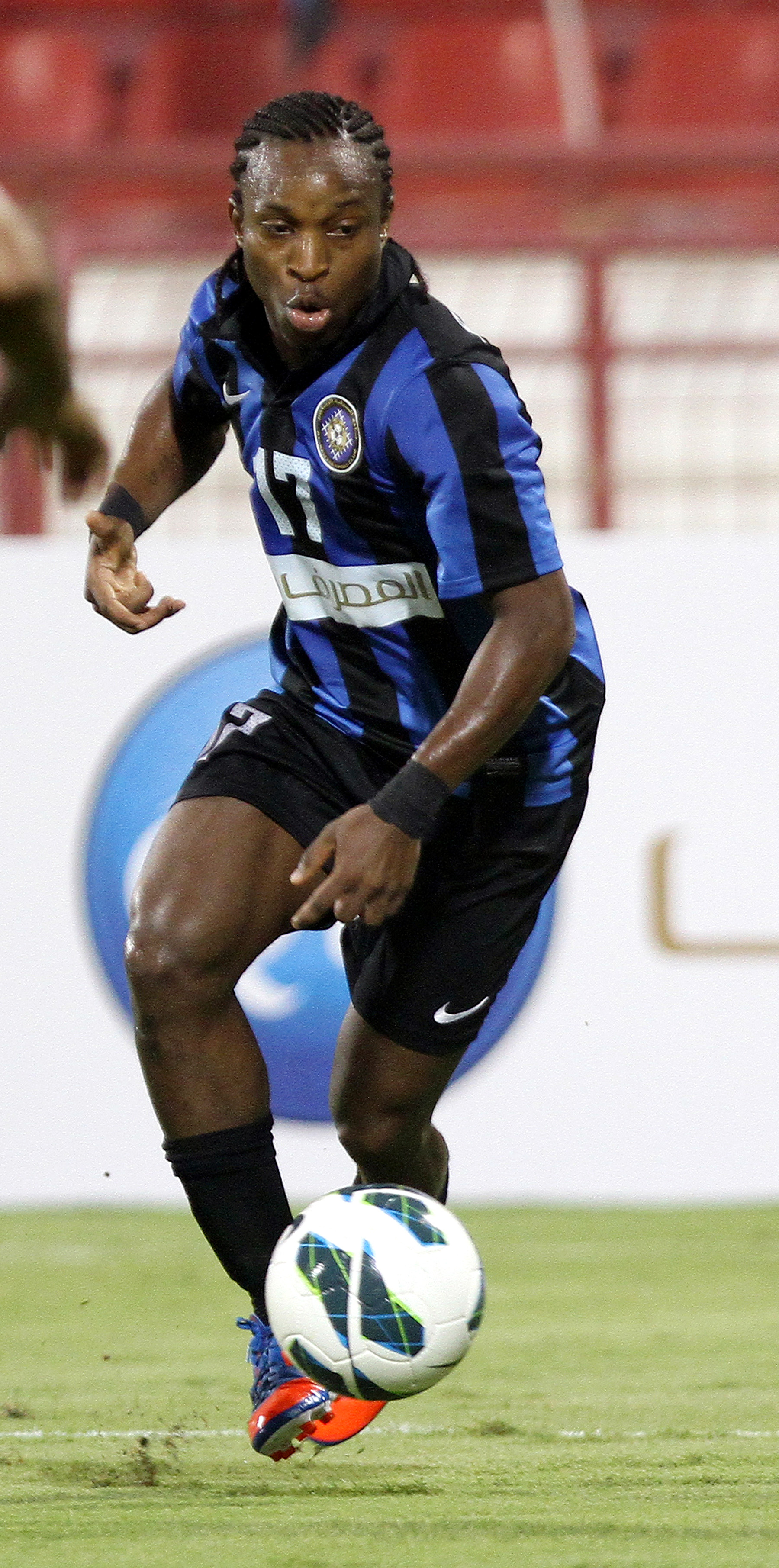 Al Sailiya's Babou Sidiki Barro in action during a Qatar Stars League match. Picture by Vinod Divakaran